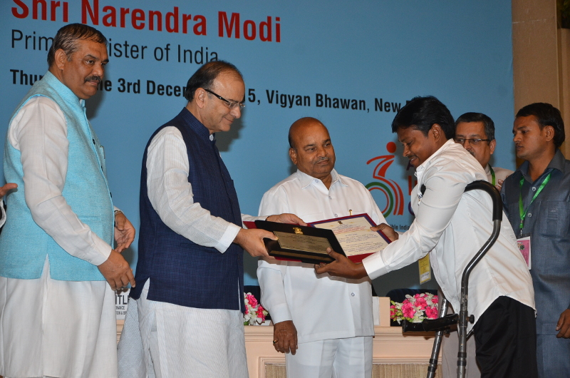 Best Accessible Website 2015 : Mr. Sathasivam received National Award from Arun Jaitley Minister of Finance of India